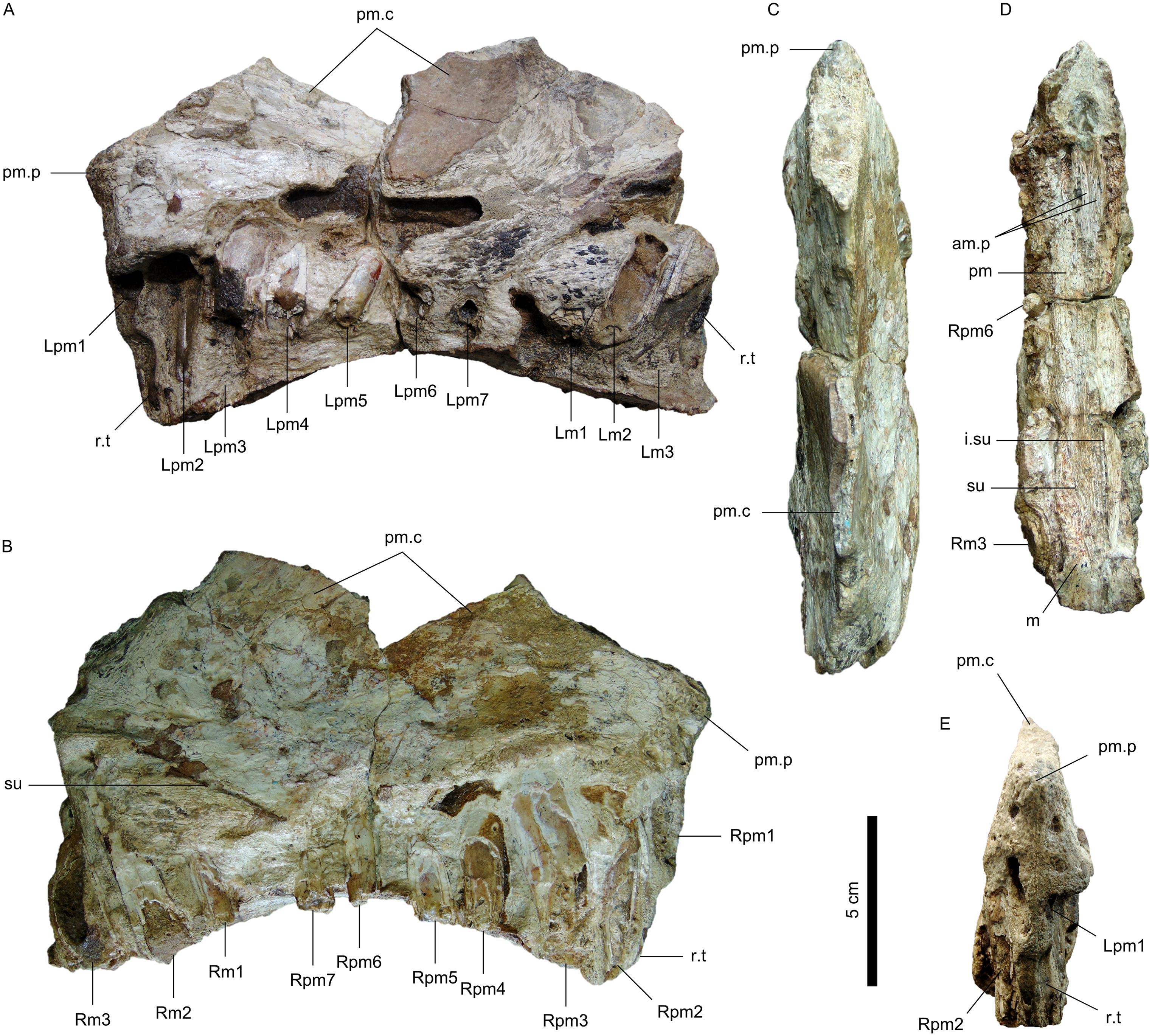 Specimen USP GP/2T-5, holotype of Angaturama limai. A, Left lateral view. B, Right lateral view. C, Dorsal view. D, Detail of the secondary palate. E, Anterior view. Abbreviations for teeth follow Hendrickx et al. [58]. Additional abbreviations: am.p, anteromedial process of maxilla; i.su, intermaxillary suture; m, maxilla; pm, premaxilla; pm.c, premaxillary sagittal crest; pm.p, anterior premaxillary projection; r.t, replacement tooth; su, suture between premaxilla and maxilla.